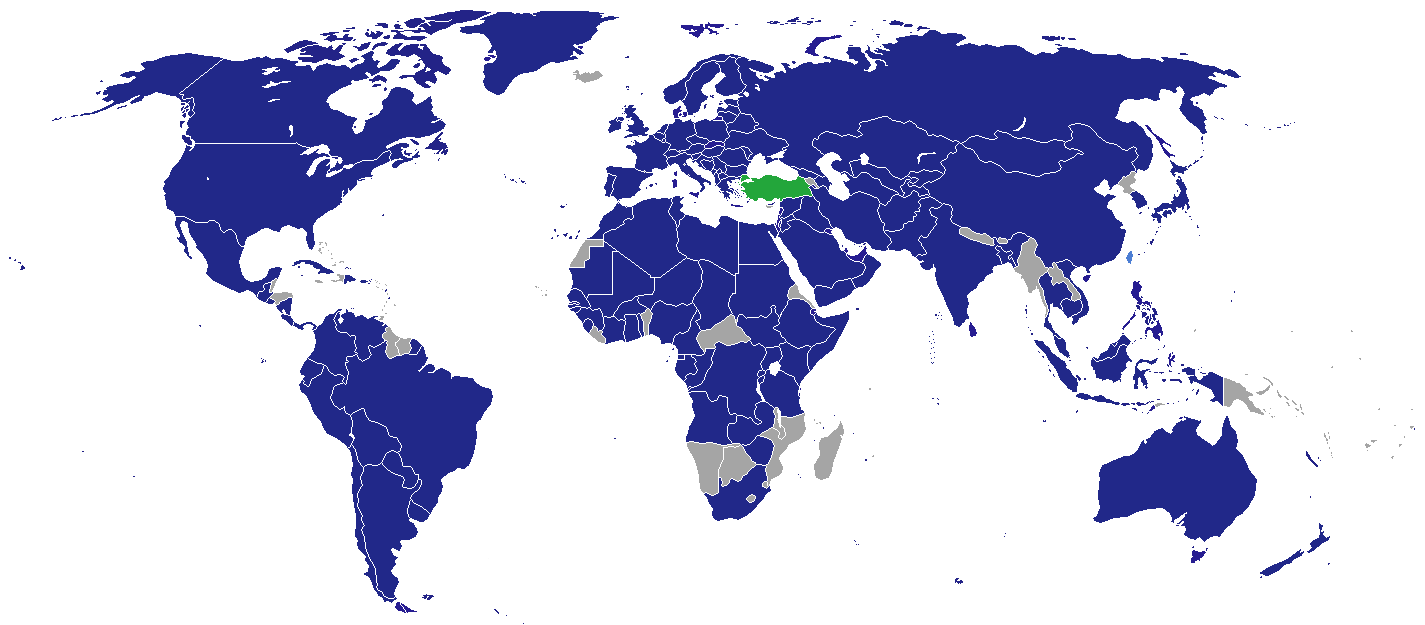 Map of diplomatic missions in Turkey